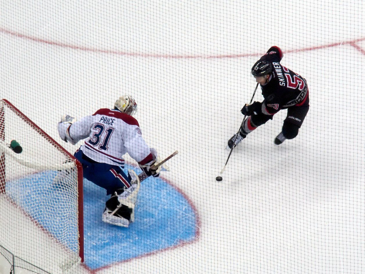 Carey Price of the Montreal Canadiens holds off a shootout attempt by Jeff Skinner of the Carolina Hurricanes